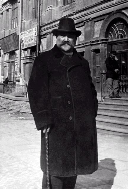 Ilia Chavchavadze